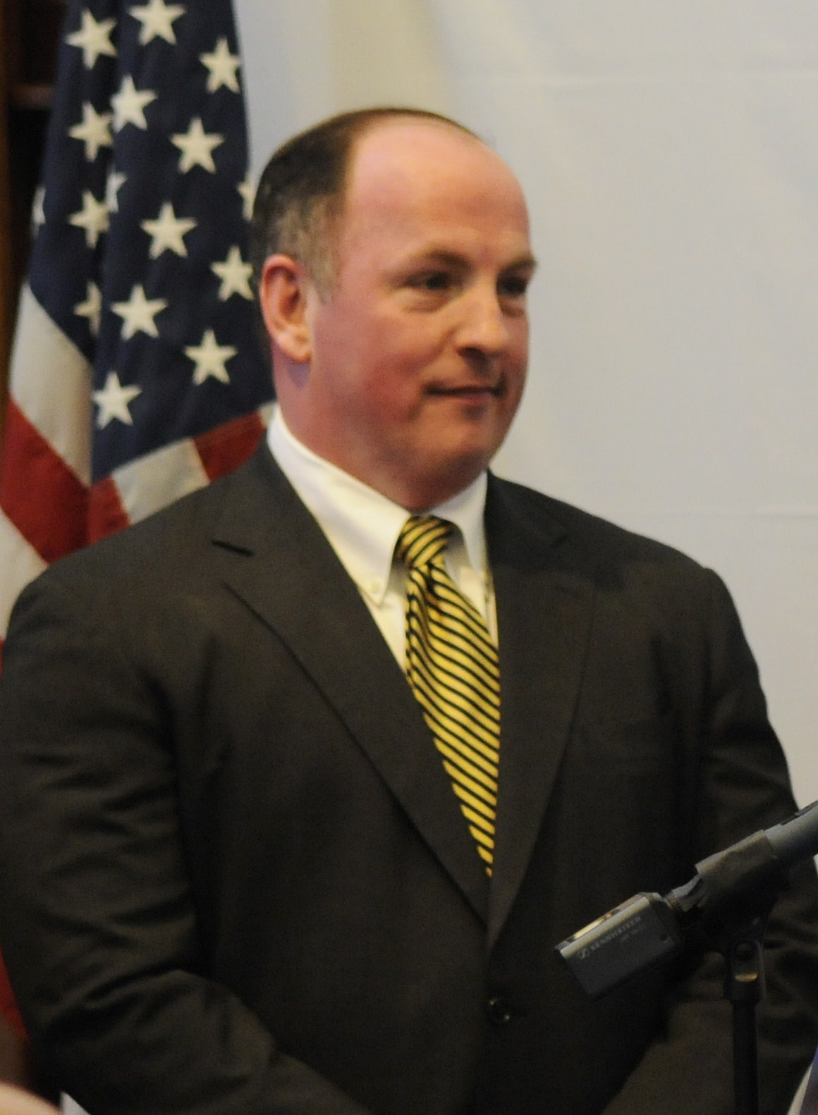 American politician Brian Joyce of the Massachusetts Senate at a press conference in 2008.